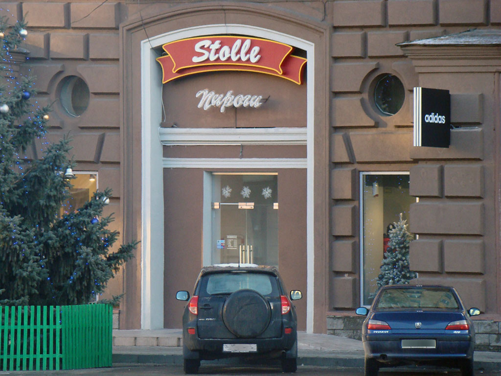 Caffee Stolle in Minsk